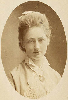 Mathilde Juliane Engeline Price (1847-1937), Danish ballerina and painter